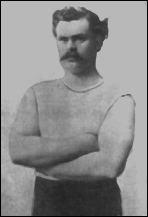 "Professor" William Miller - Australian champion boxer, fencer, wrestler and weight-lifter.